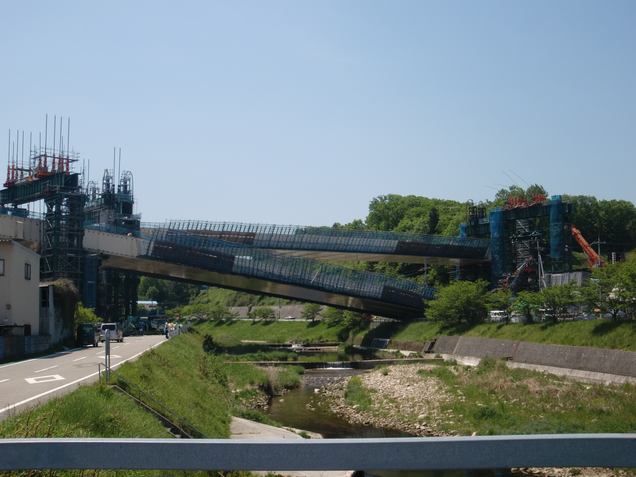 Bridge beam falling down at Kobe Hyogo